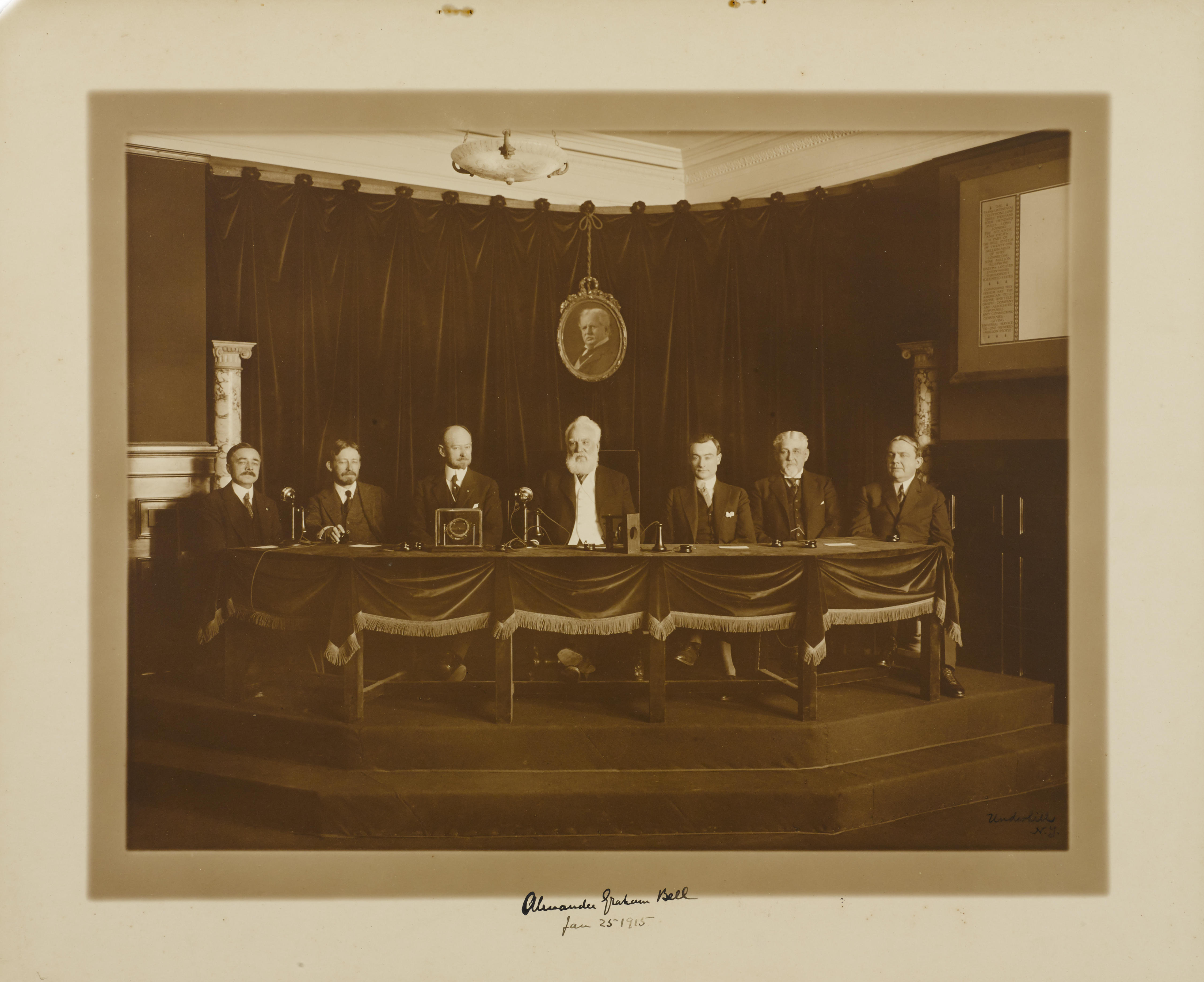 First transcontinental telephone call. Alexander Graham Bell, in New York City, repeated his famous statement "Mr. Watson, come here. I want you," into the telephone, which was heard by his assistant Dr. Watson in San Francisco, for a long distance call of 3,400 miles. Dr. Watson replied, "It will take me five days to get there now!" The Alexander Graham Bell call officially initiated AT&T's transcontinental service. Left to Right: U.N. Bethell, Senior Vice-President Amercian Telephone & Telegraph Co., presiding; Hon. George McAneny, President Board of Alderman, New York City; John J. Carty, Chief Engineer, American Telephone & Telegraph Co.; Alexander Graham Bell, John Purroy Mitchel, Mayor of New York; C.E. Yost, President of Nebraska Telephone Co., Omaha; Hon. William A. Prendergast, Comptroller of the City of New York In front of Dr. Bell is the replica of his original telephone. In front of Mr. Bethell is the glass case containing a piece of the wire over which Dr. Bell and Mr. Watson carried on the first telephone conversation in the world.